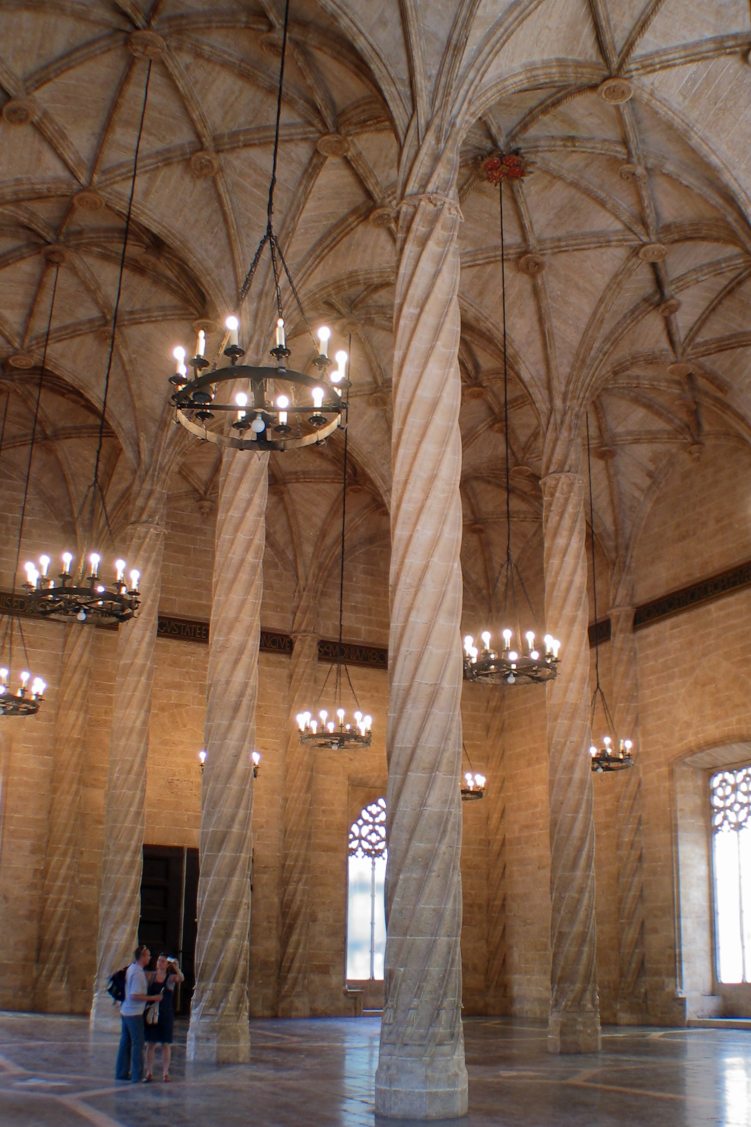 The Lonja in València, Spain.